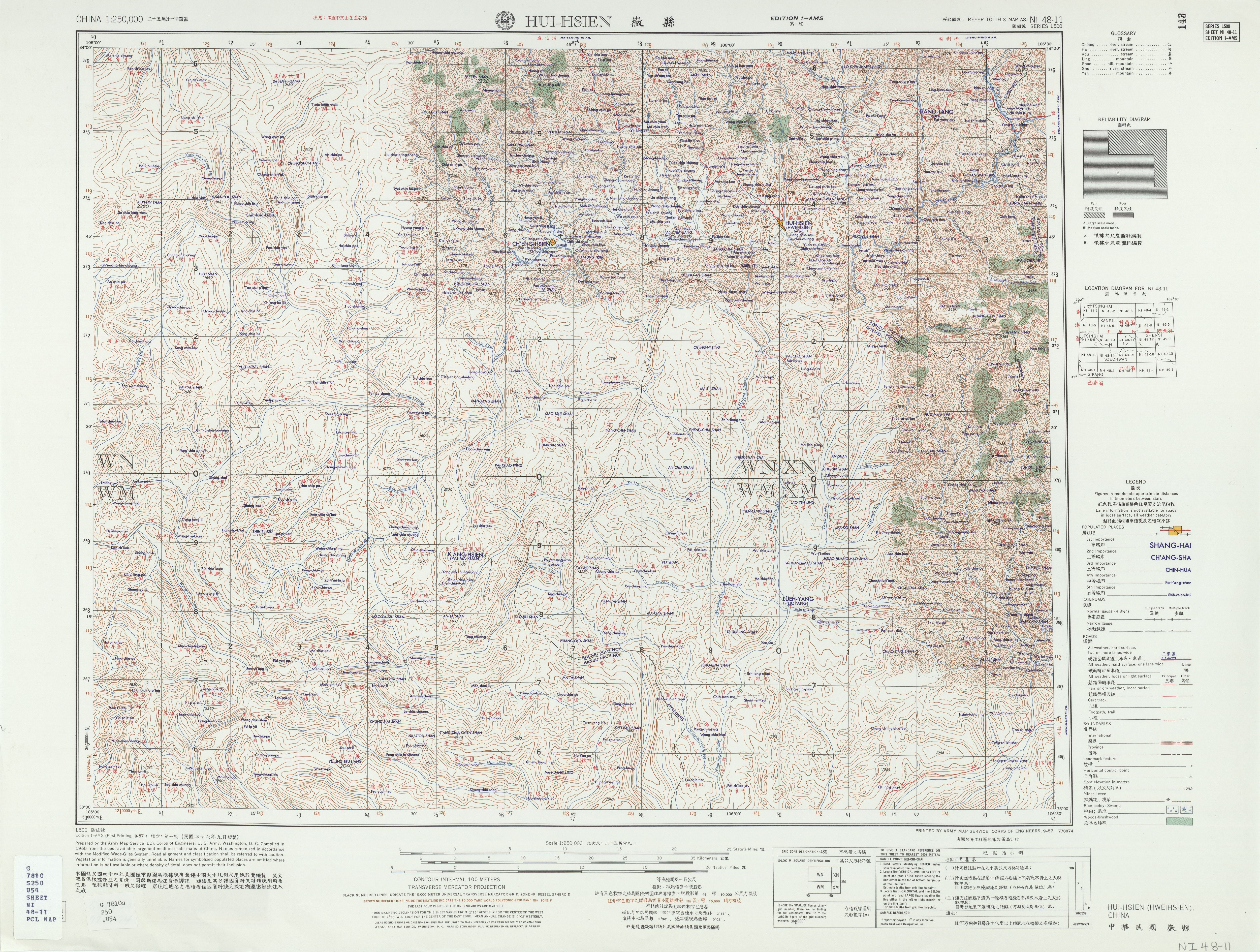 China AMS Topographic Maps